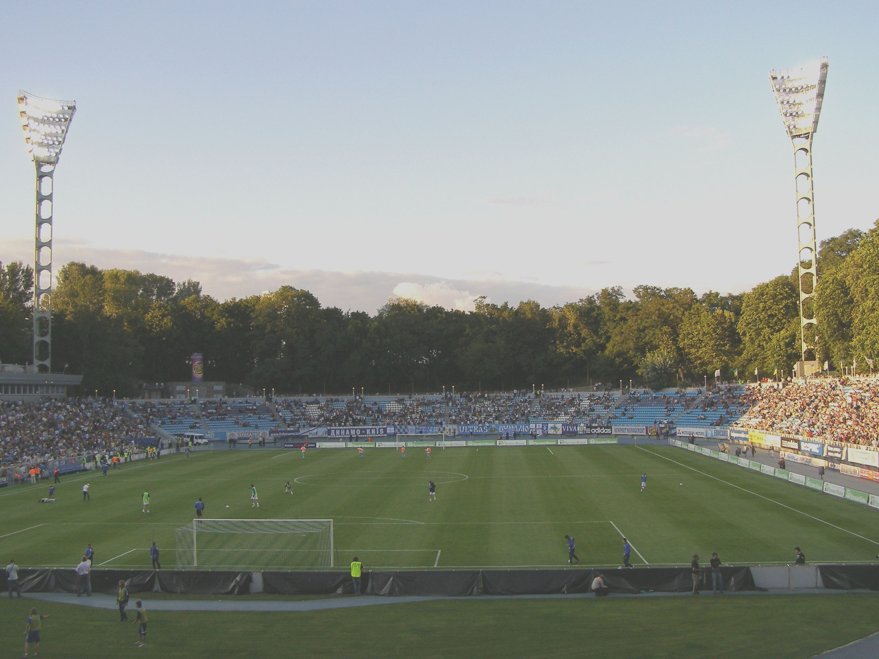 Lobanovsky Dynamo Stadium, Kyiv